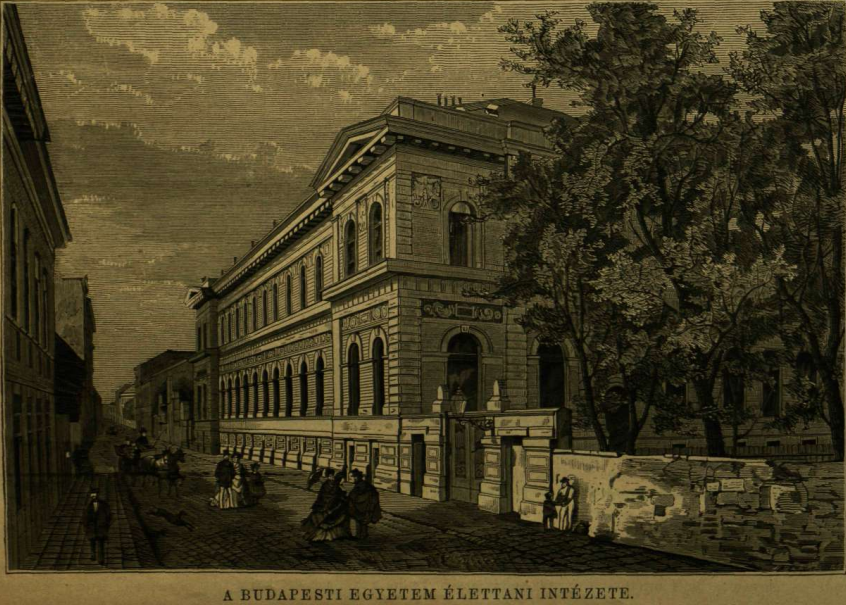 Institute for physiology, Budapest